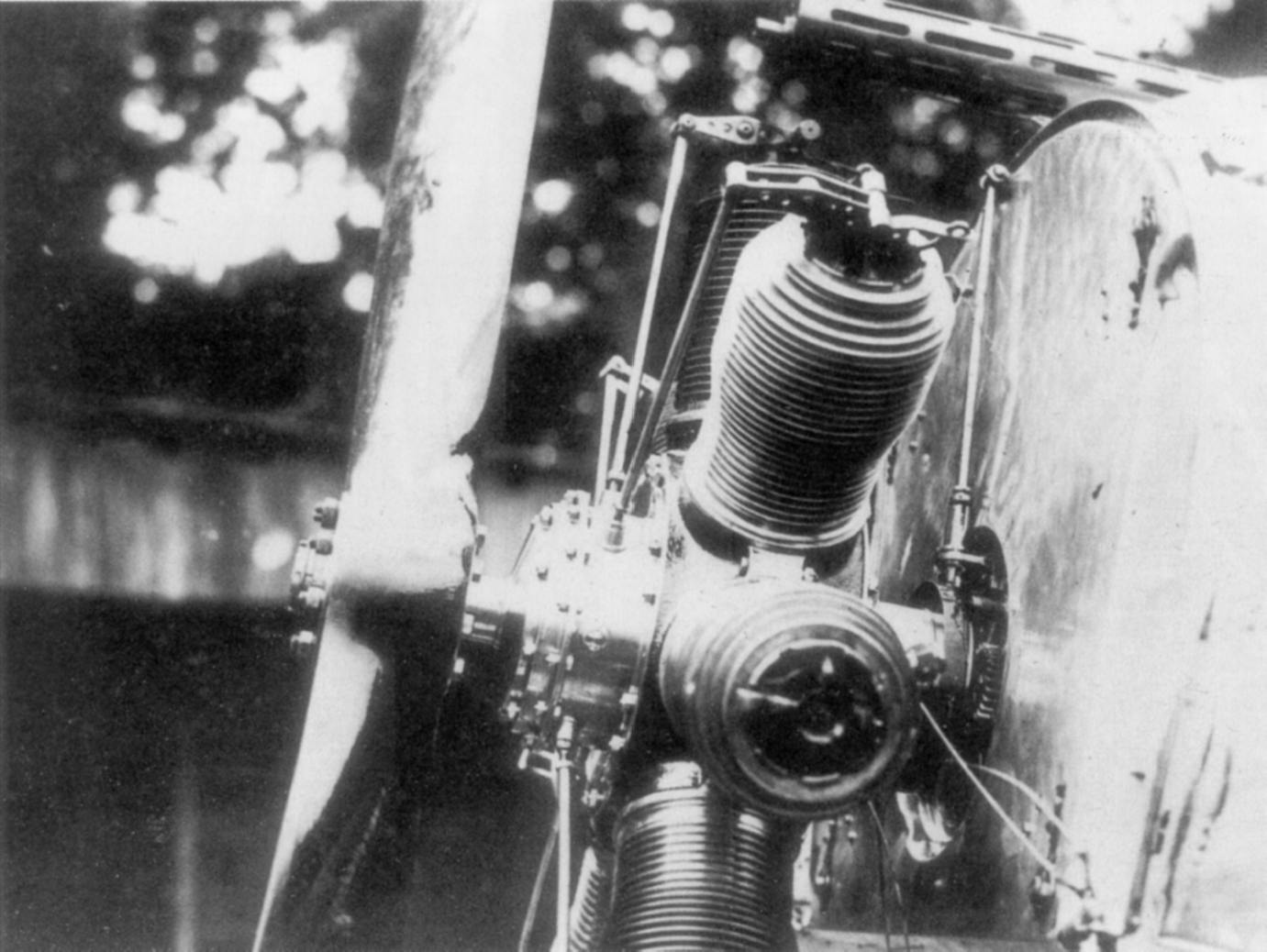 Closeup of a Fokker E.I's Oberursel U.0 seven cylinder rotary engine, and Stangensteuerung synchronizer gear drive cam/rod unit behind engine crankcase.